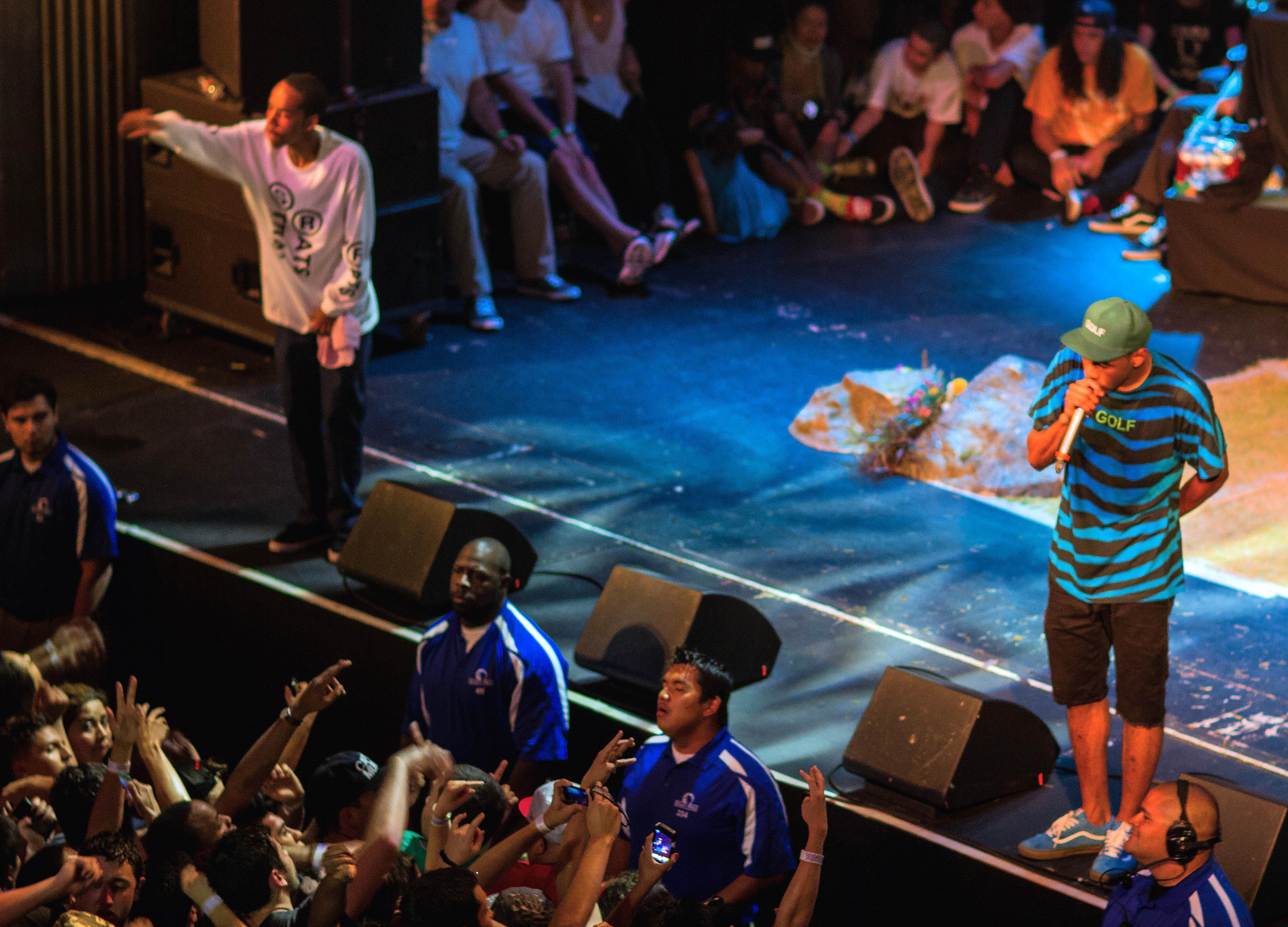 Tyler The Creator and Earl Sweatshirt performing at the Pomona Fox Theater in 2013.